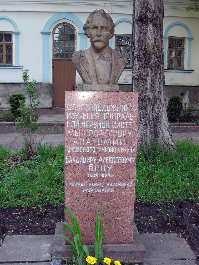 Vladimir Alekseyevich Betz Image courtesy Sergiy Klymenko